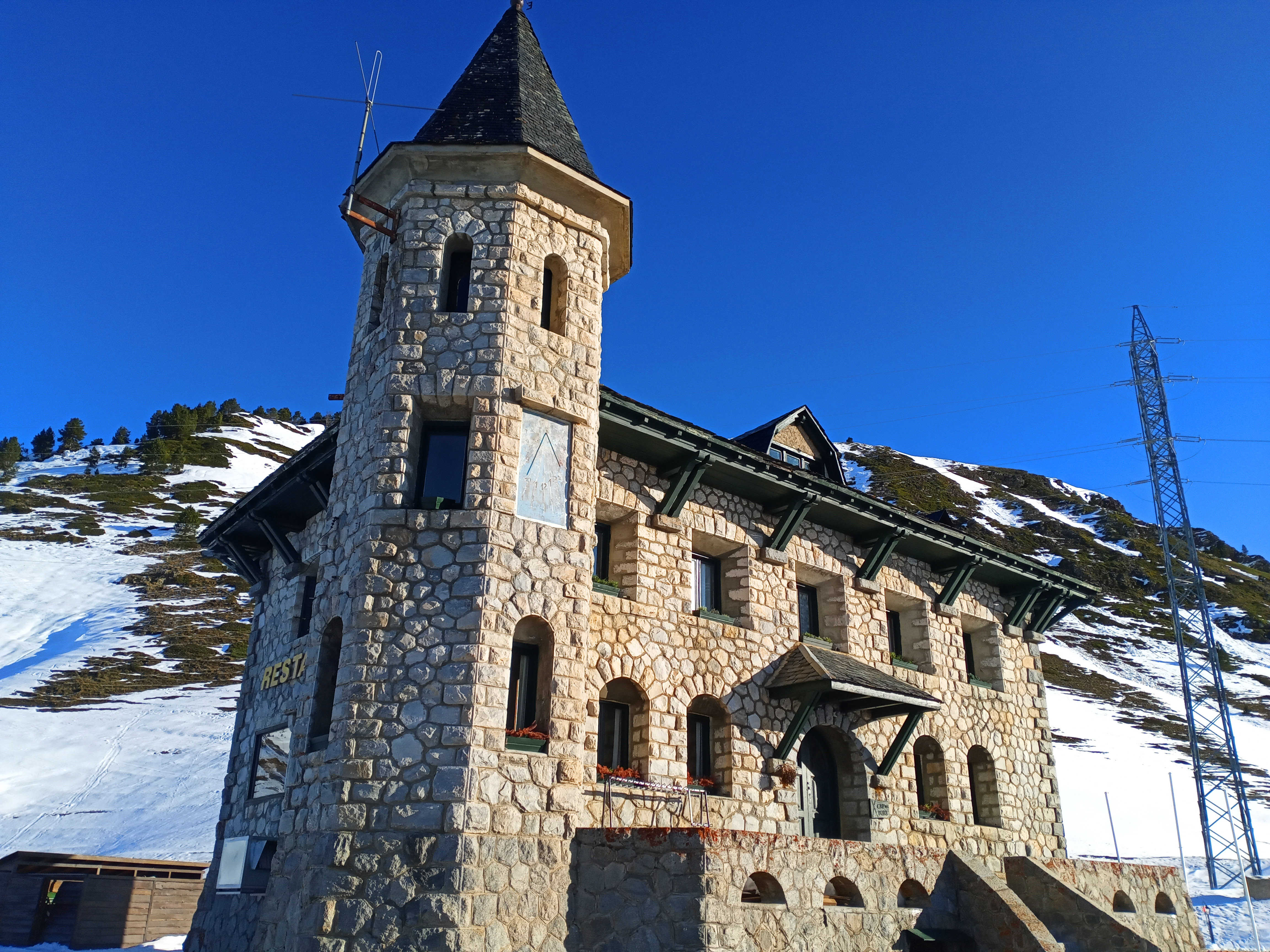 Building at Bonaigua Pass, built by Productora de Fuerzas Motrices (Catalonia)